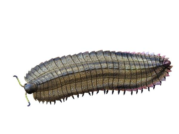 Life reconstruction of Arthropleura armata